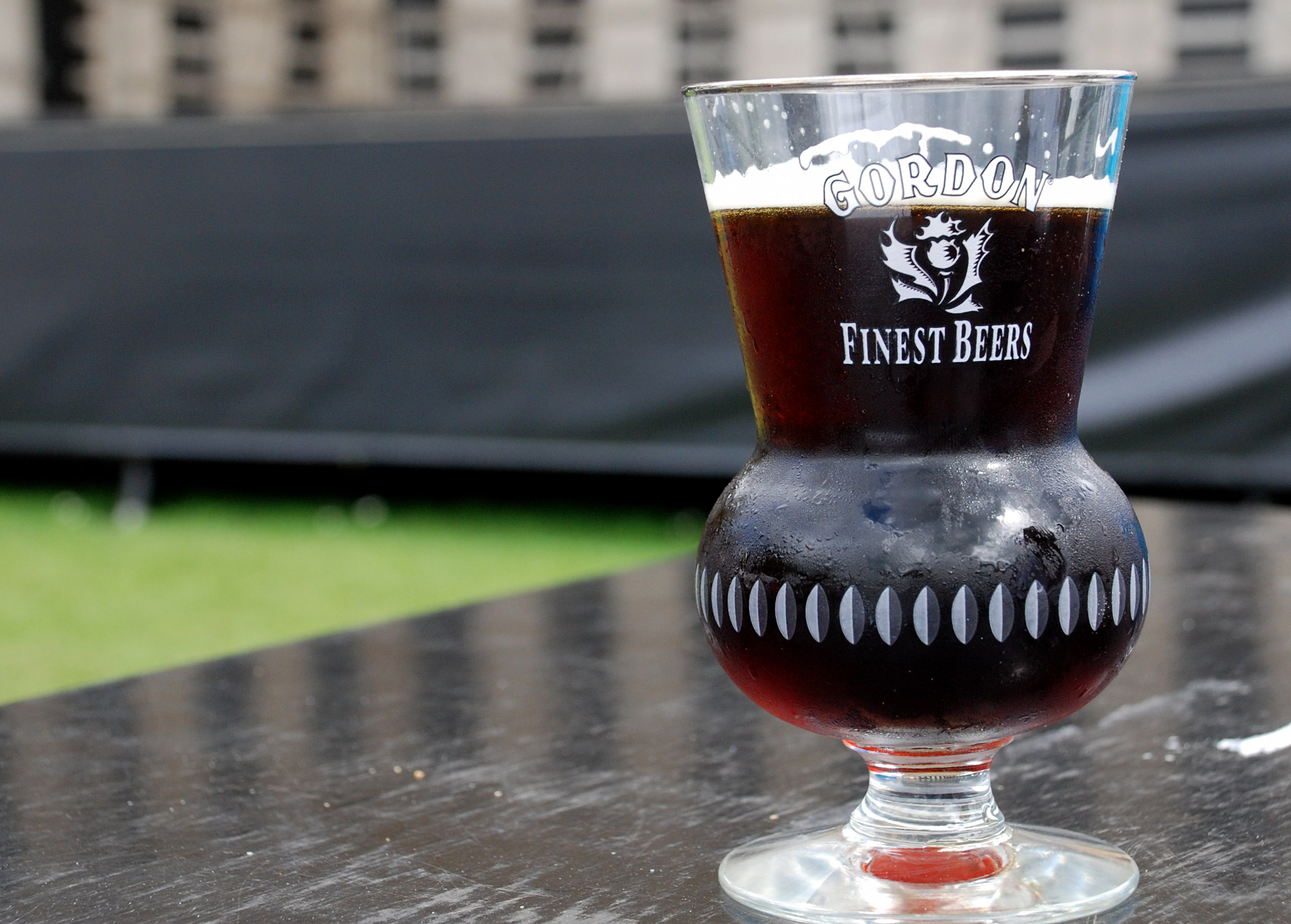 Gordon finest Scotch, Belgian beer